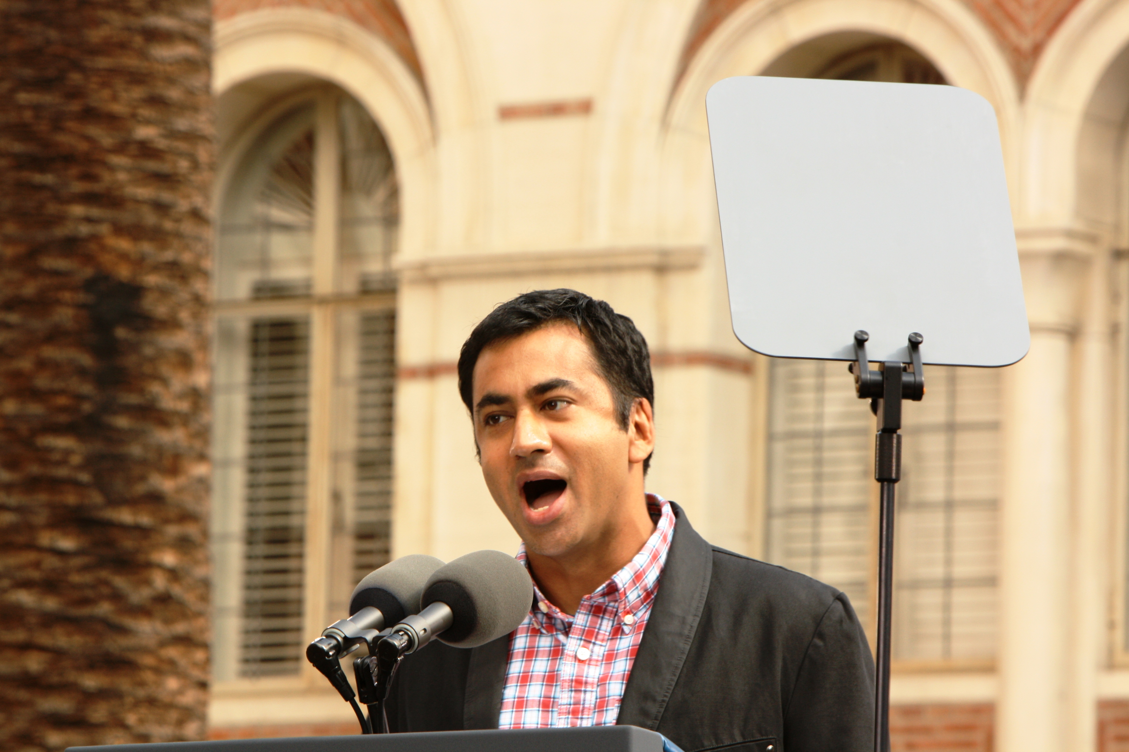 Democratic Rally held at USC's Alumni Park on October 22, 2010. (Photo by: Shotgun Spratling)